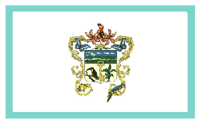 bandera de tingo maria